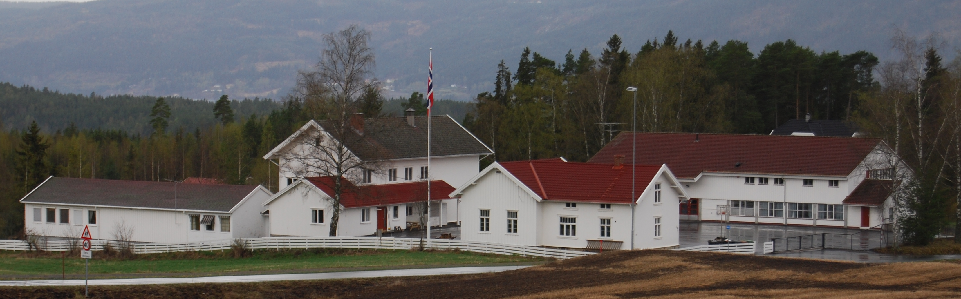 Bjørklund school, Gran, Oppland, Norway. This is a retouched picture, which means that it has been digitally altered from its original version. Modifications: Cut away burnt field and gray sky..